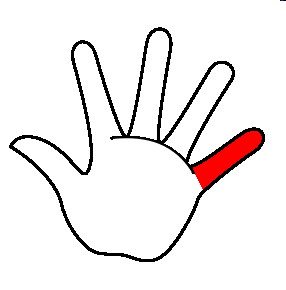 Black and white outline of left hand